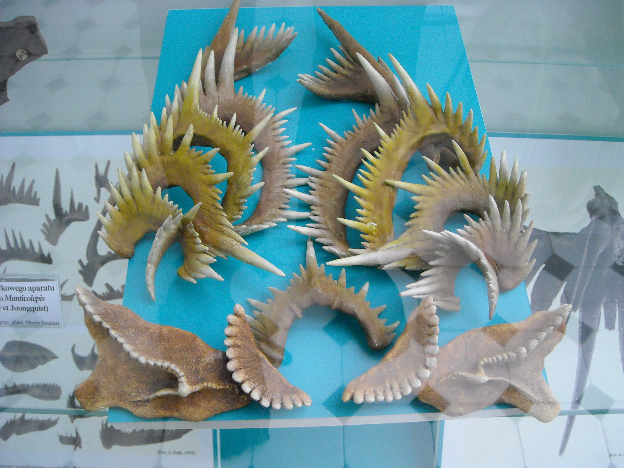 Stark vergrößertes Modell des „Kieferapparates“ von Manticolepis subrecta – eines Conodonten aus dem obereren Frasnium (Oberdevon) von Polen.